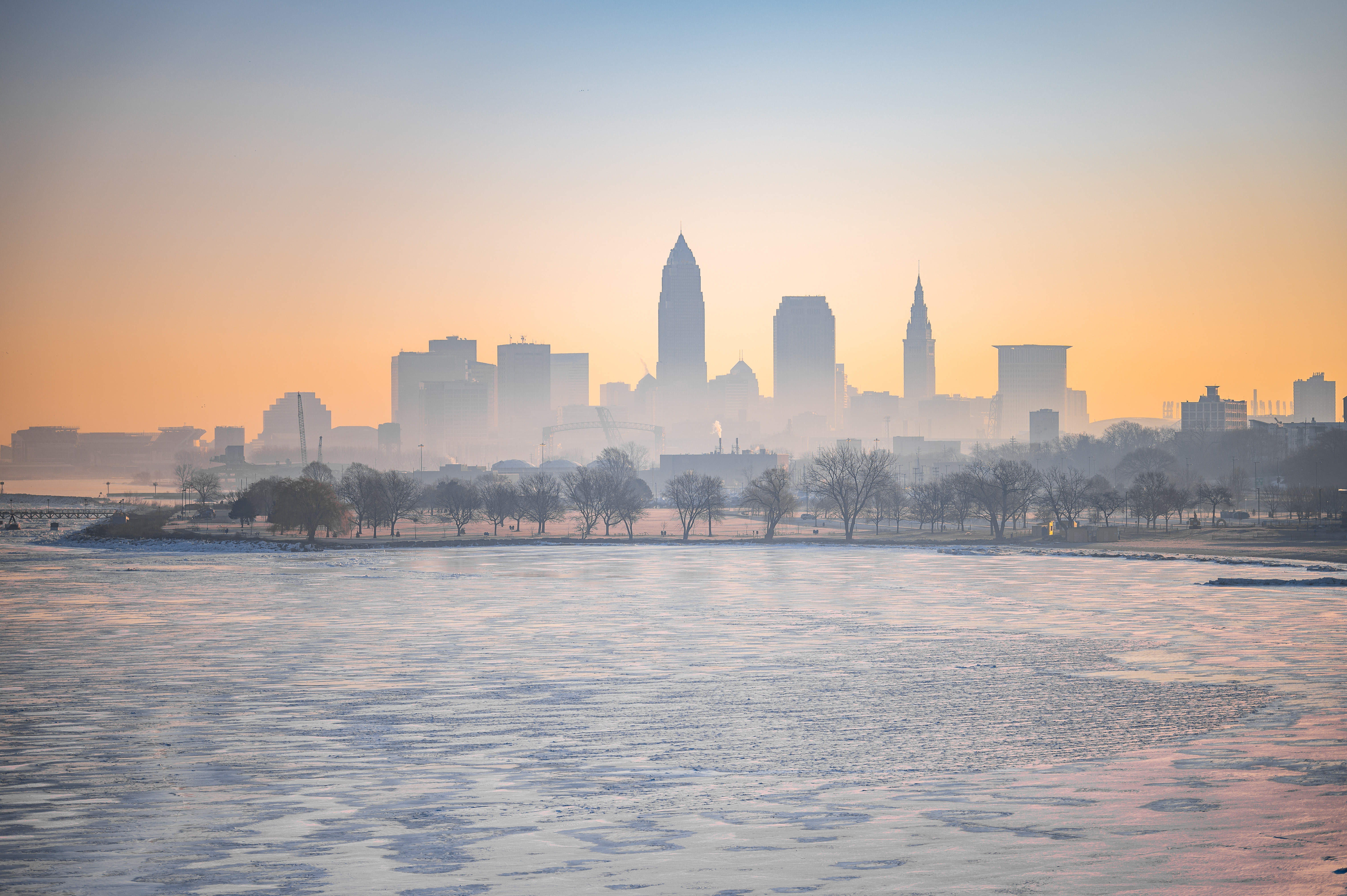 Downtown Cleveland, central business district of Cleveland, Ohio, USA